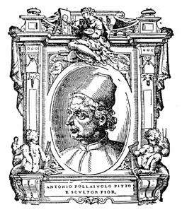 Illustratio from "Le Vite" by Giorgio Vasari, edition of 1568. For the artist portrayed see filename